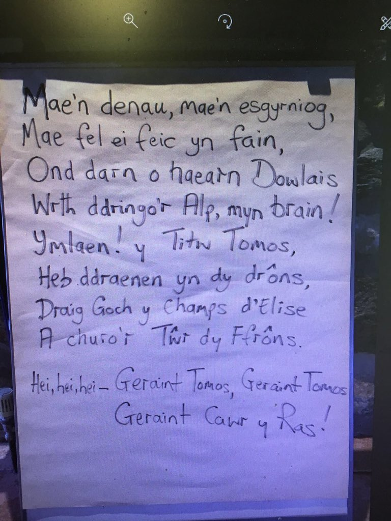 Words to 'Titw Tomos' song to Geraint Thomas on winning Tour de France 2018 by Cwrw Llyn